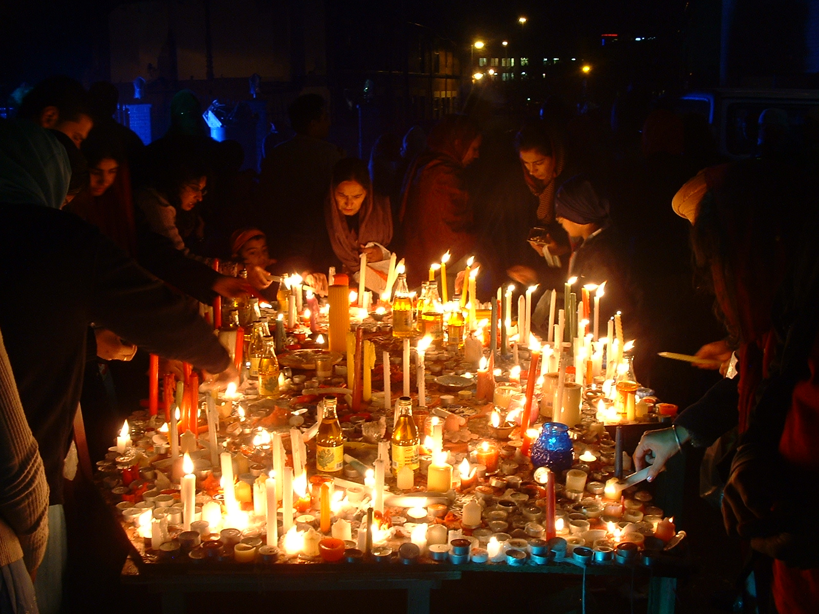 Diwali celebrations in Coventry, United Kingdom. Taken by Satinder Singh